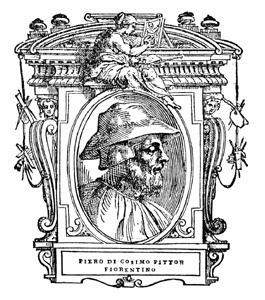 Illustratio from "Le Vite" by Giorgio Vasari, edition of 1568. For the artist portrayed see filename